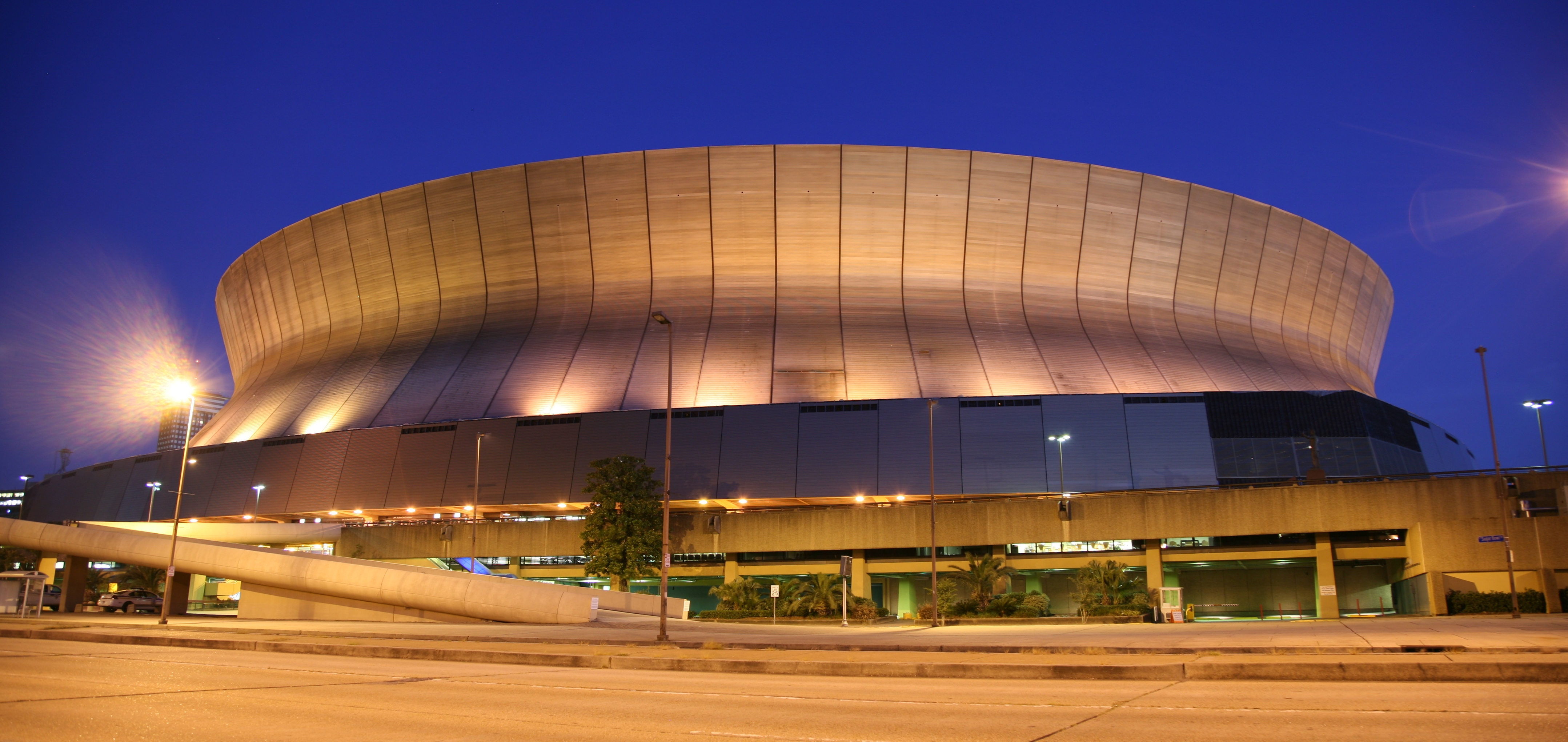 Louisiana Superdome by night